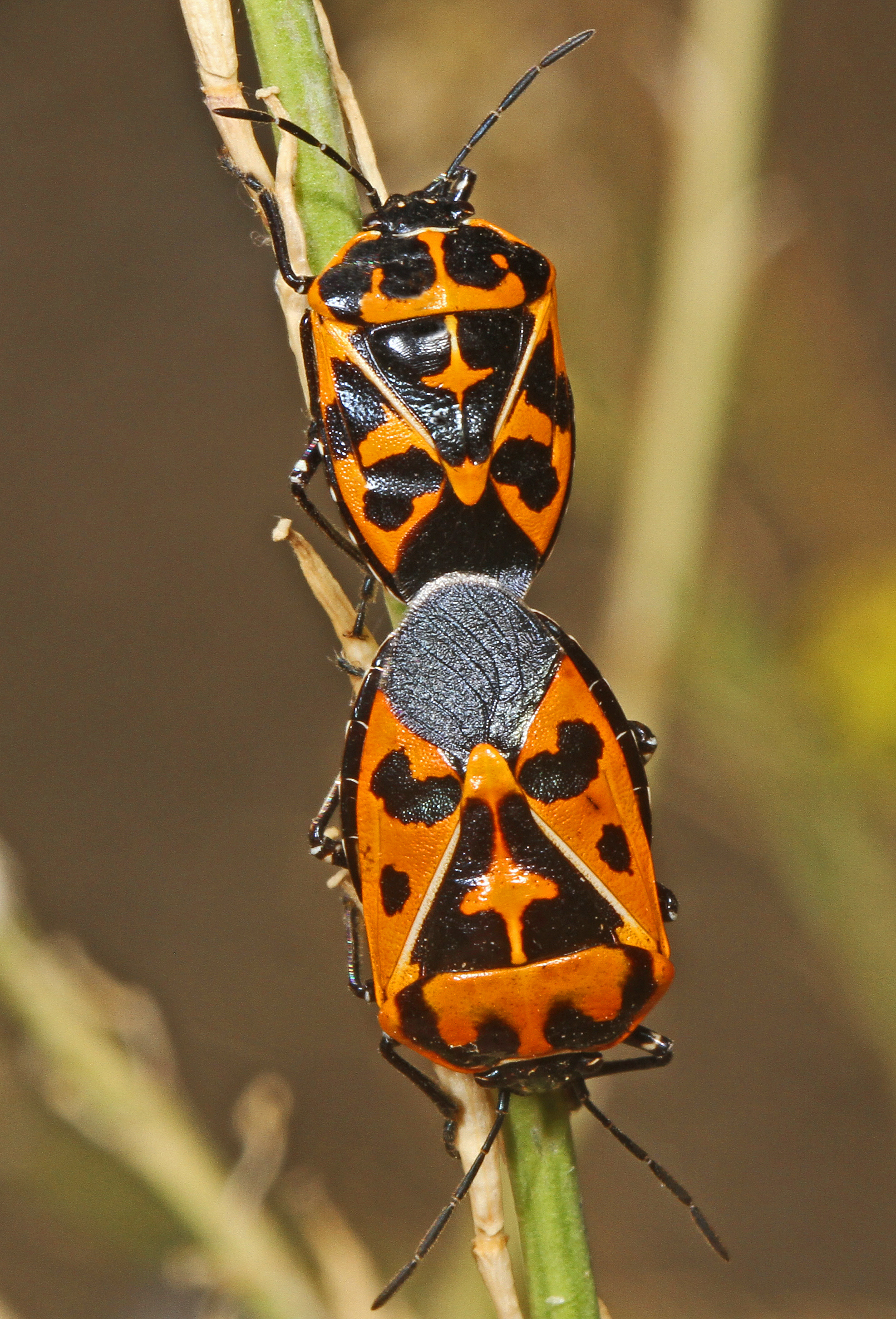 Harlequin Bug - Murgantia histrionica, near Big Oak Flat, California.